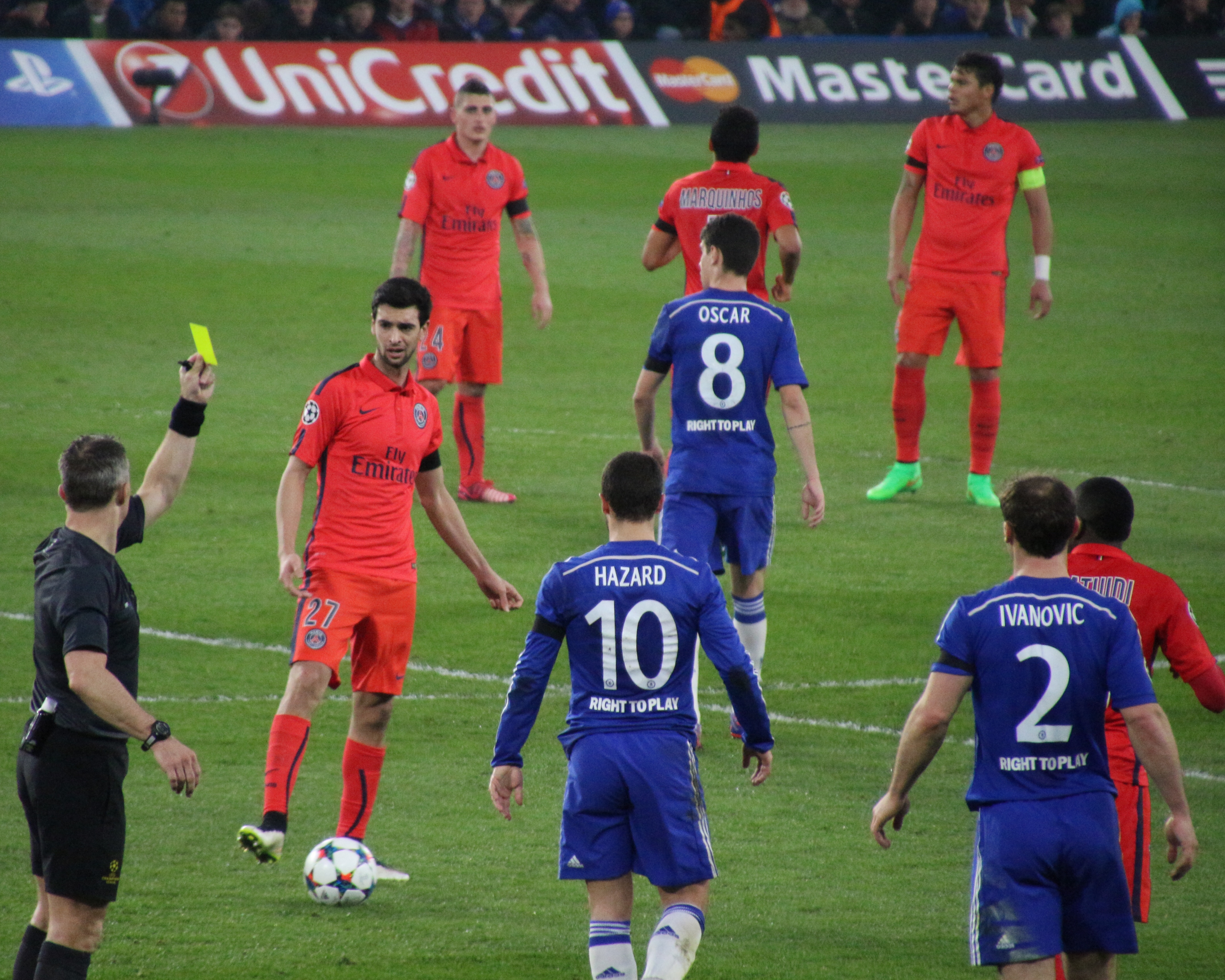 Chelsea 2 PSG 2 (Agg 3-3)